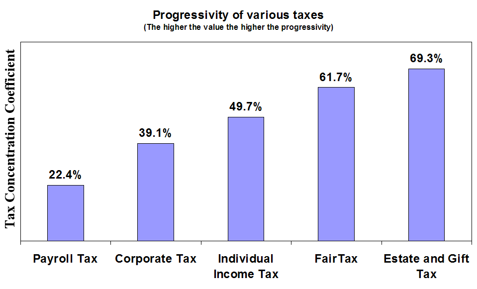 I created this image using Excel & Photoshop based on data and an image (that looks exactly the same) at